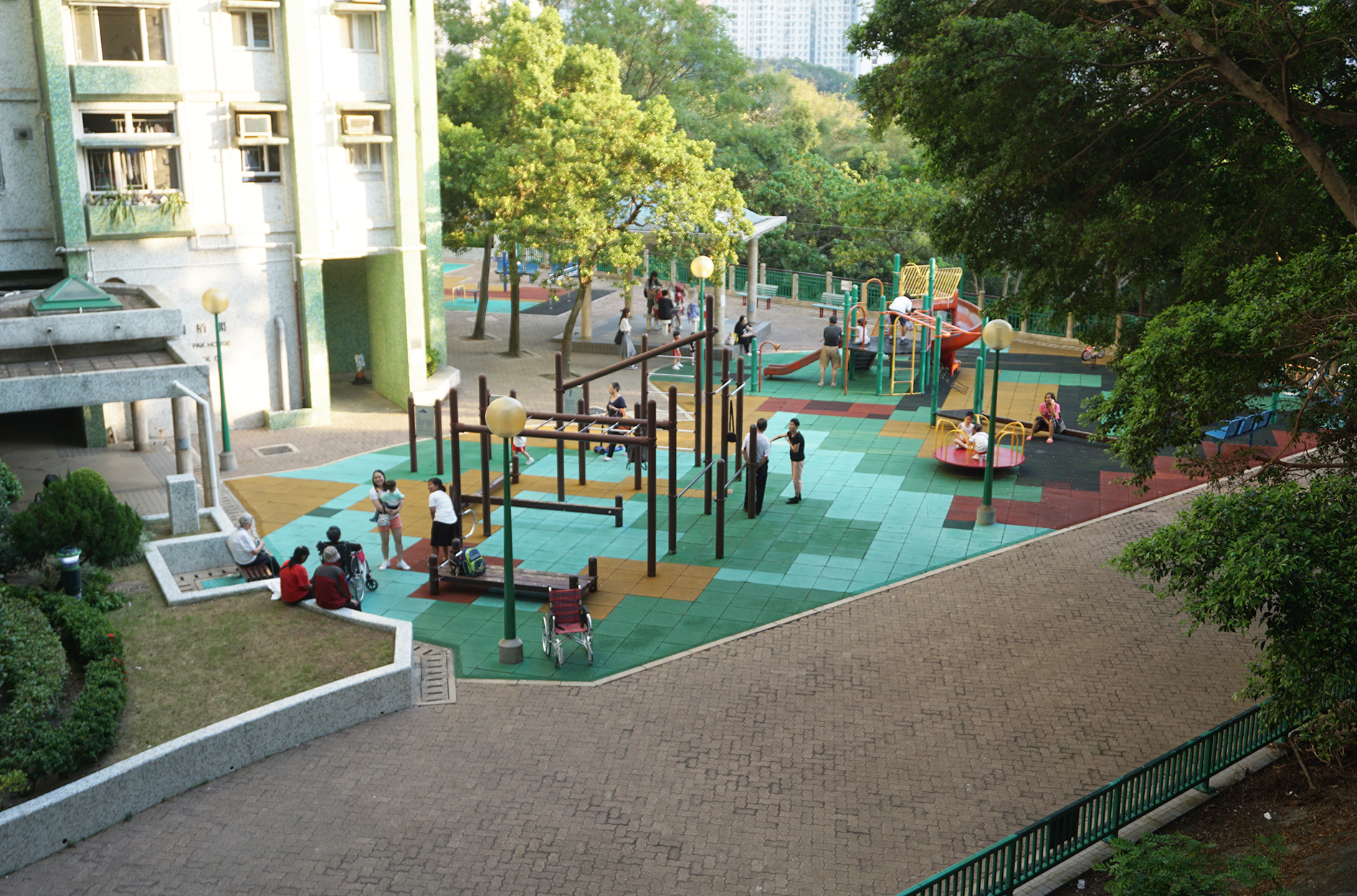 Hong Pak Court in Lam Tin, Hong Kong.